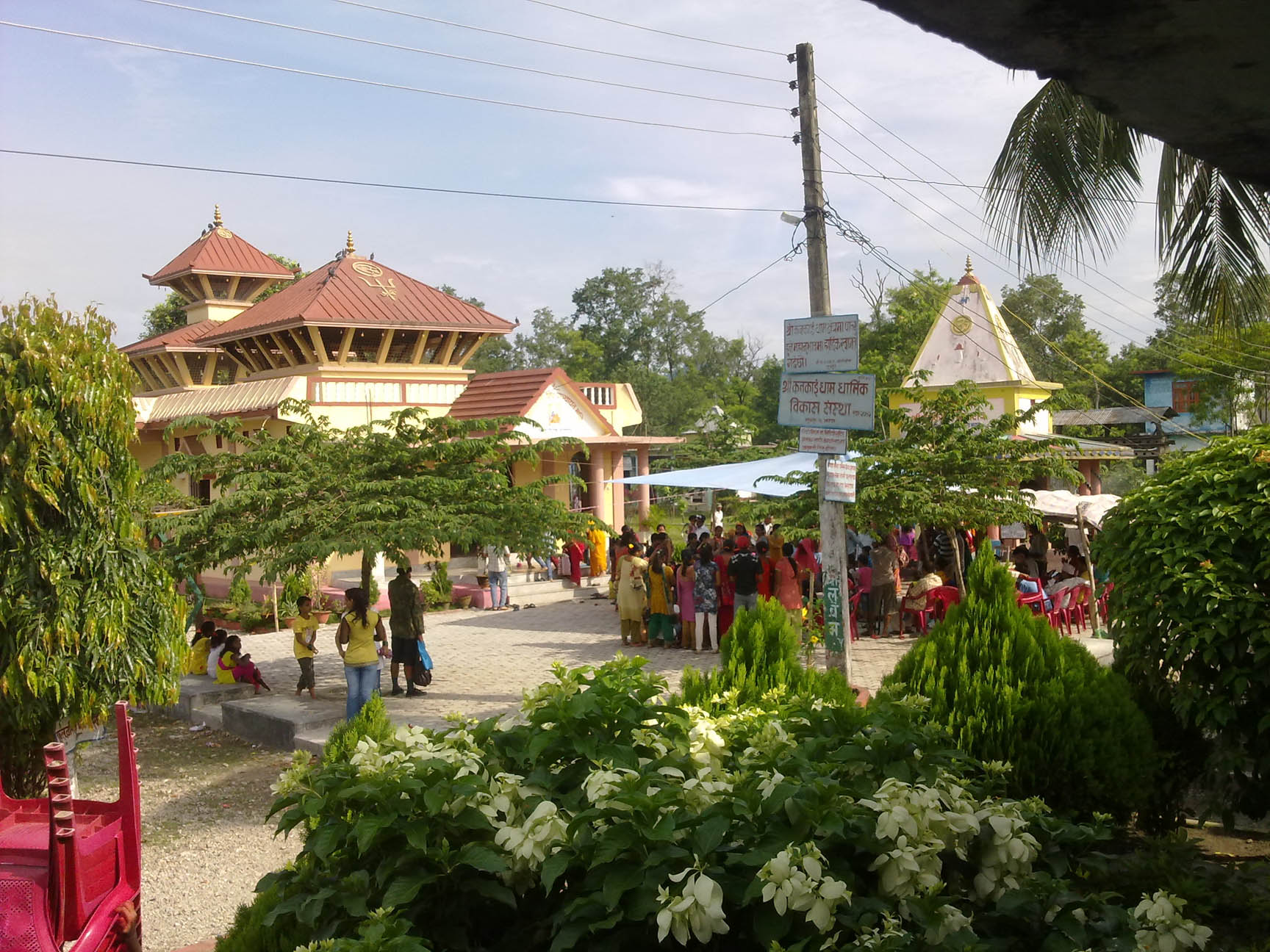 Kankai (Kotihom) temple and devotees